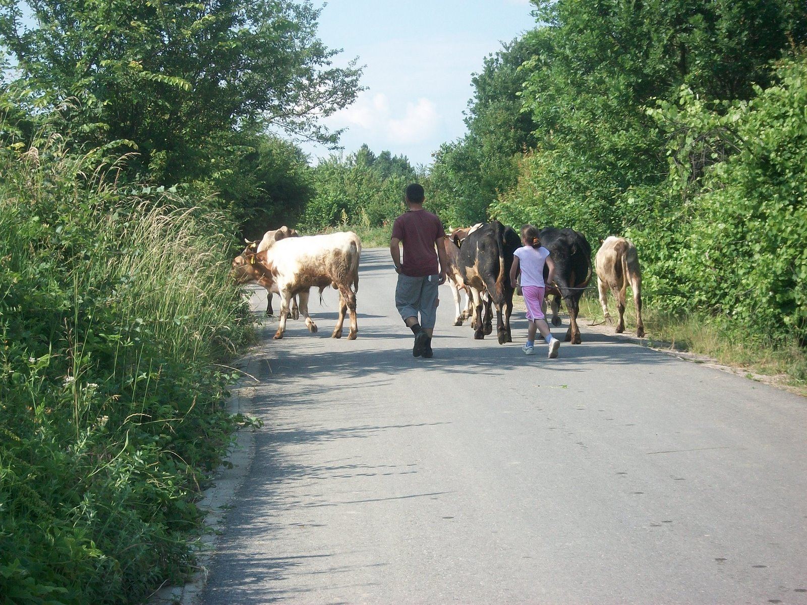 Photos from Heroid Shehu for Wikimedia Commons. Original Filename "Heroid_Shehu/Gjakova/100_1945.jpg"